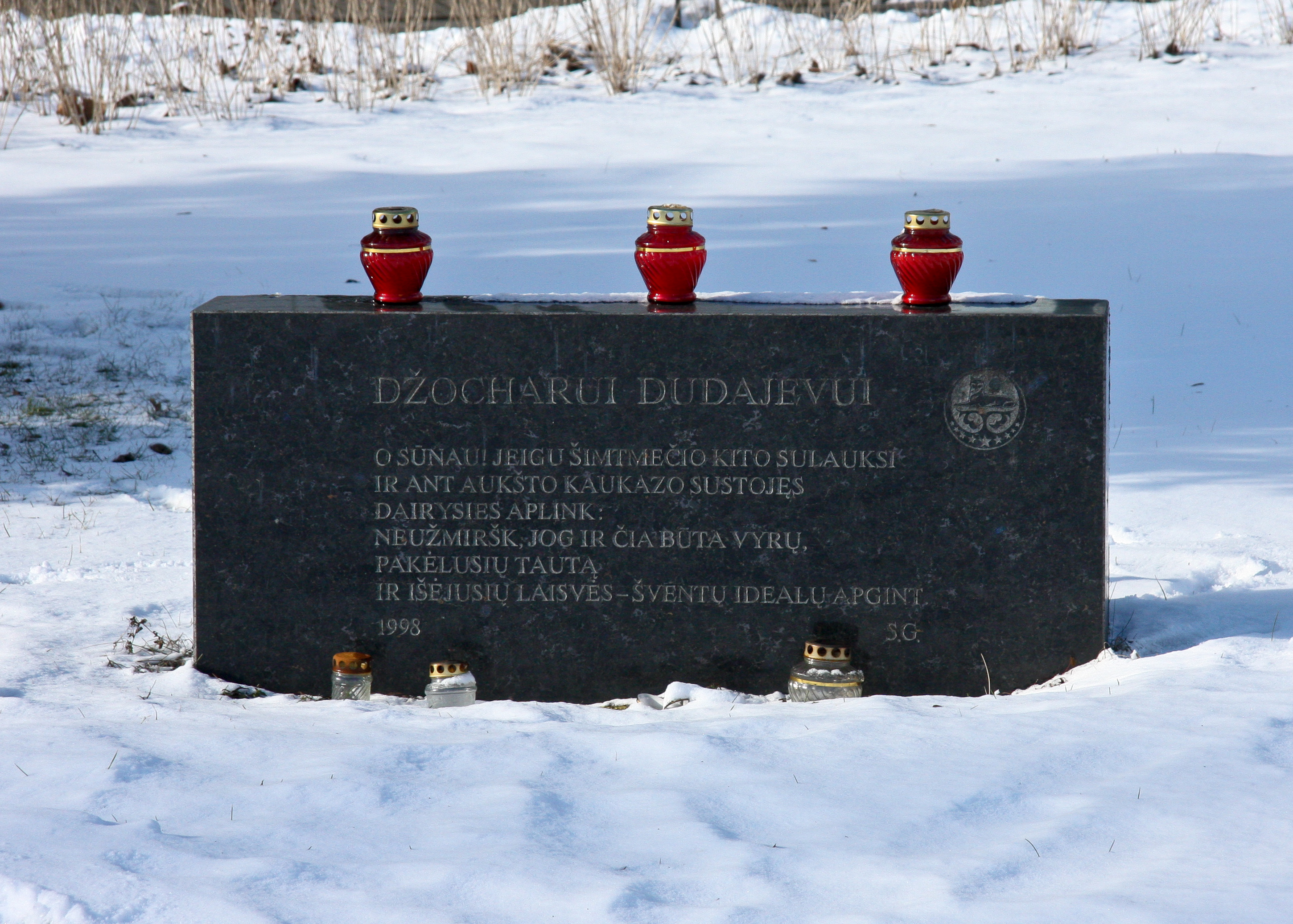 Dzokhar Dudayev monument in Vilnius